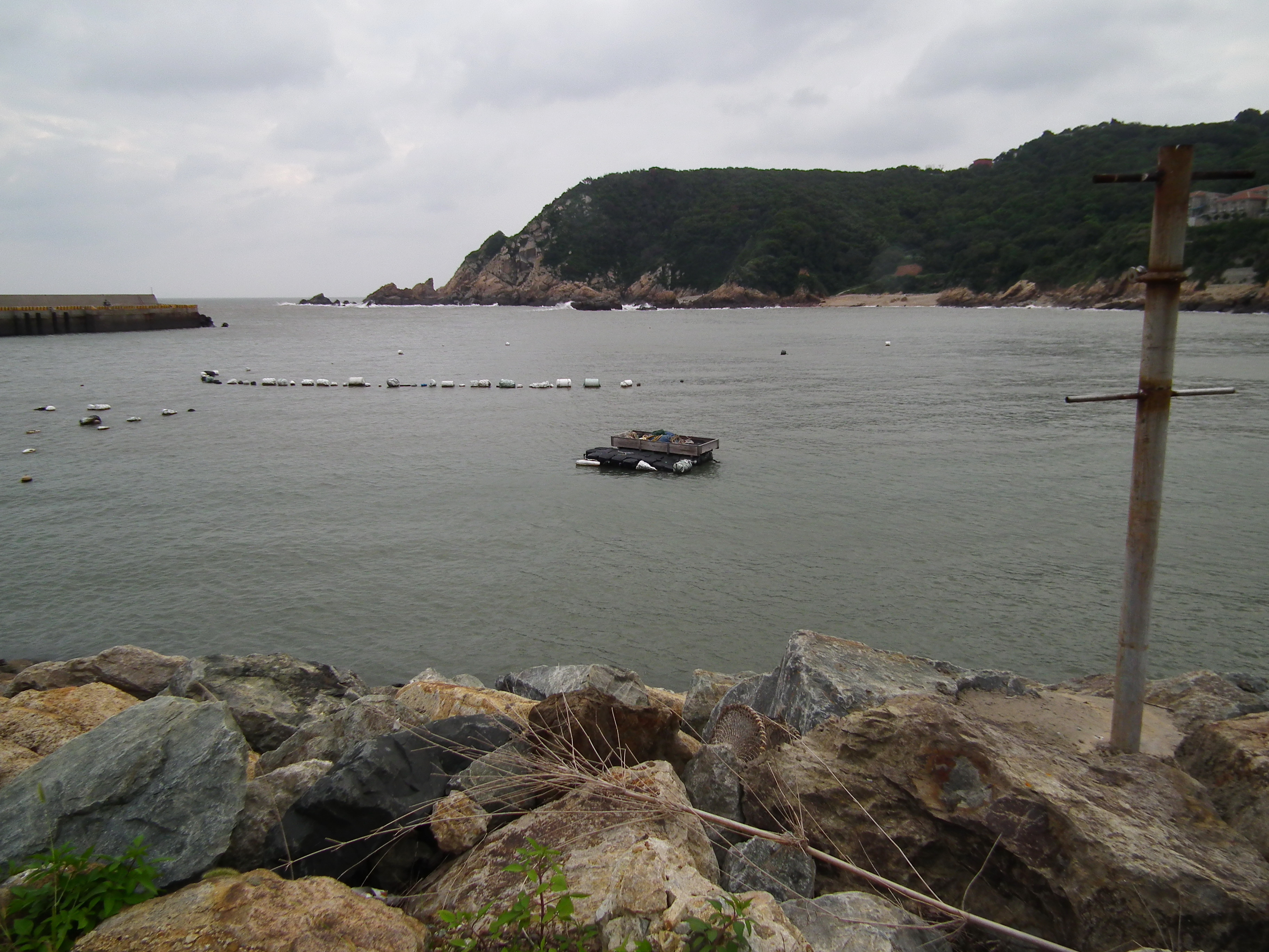 Jieshou Bay 介壽澳